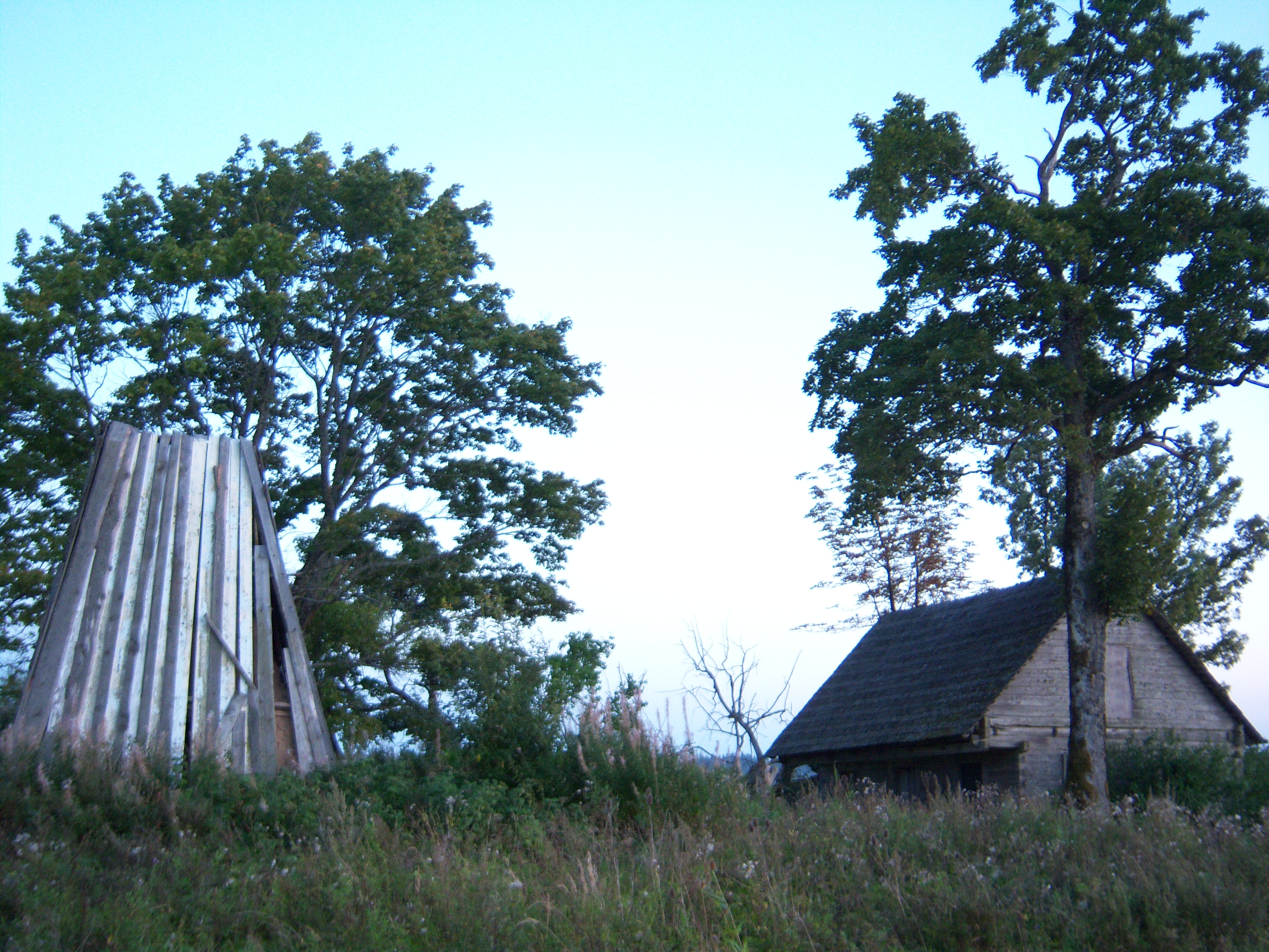 Kurmiai village, abandoned farmhouse, Klaipėda District. Lithuania